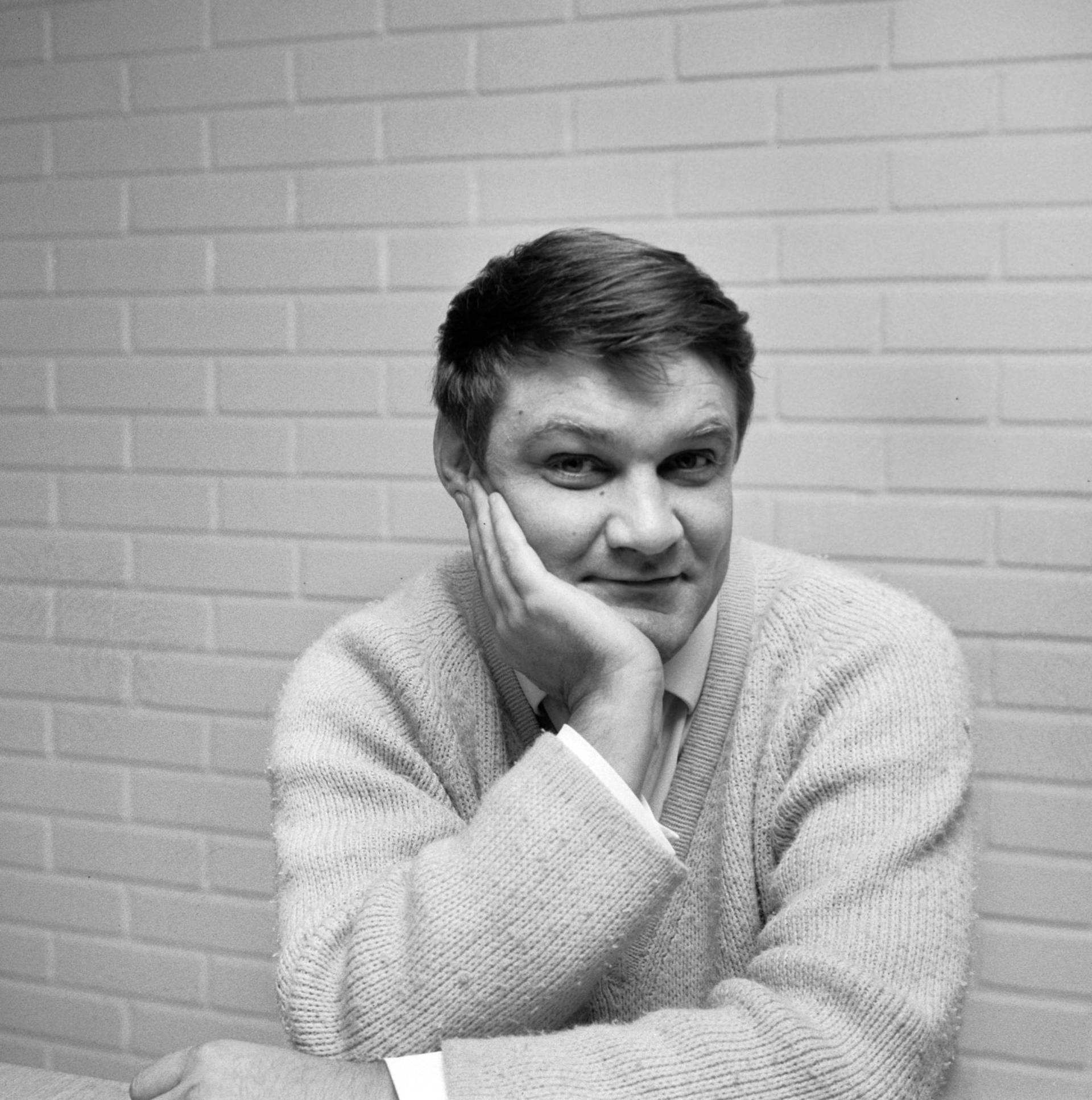 Photograph of the Finnish lyricist/journalist Jukka Virtanen.